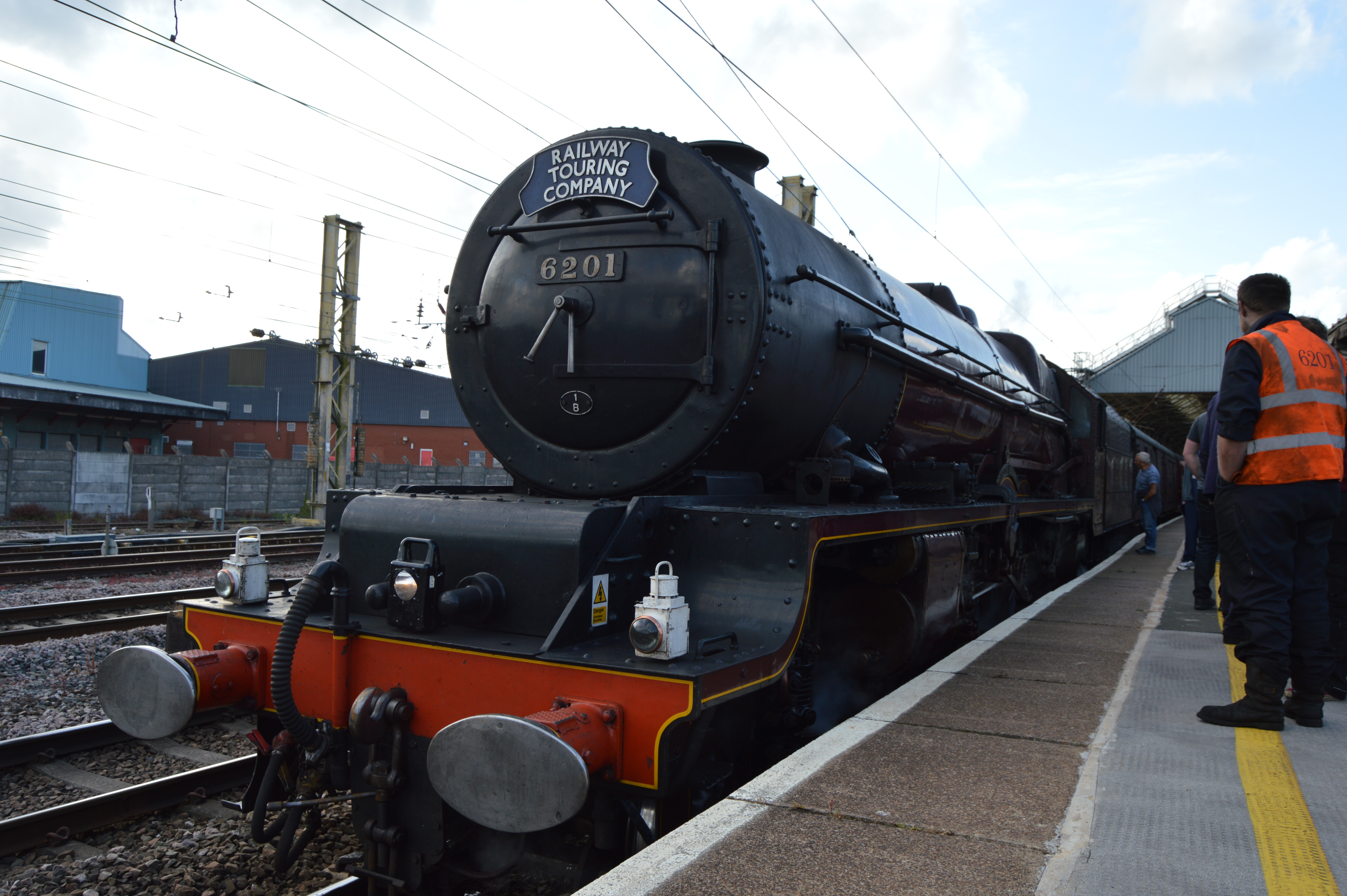 6201 Princess Elizabeth is seen at the end of platform 3 at Preston with the return leg of the "Cumbrian Mountain Express" which was on it's way back from Carlisle to Liverpool via Shap Summit and St Helens Central.